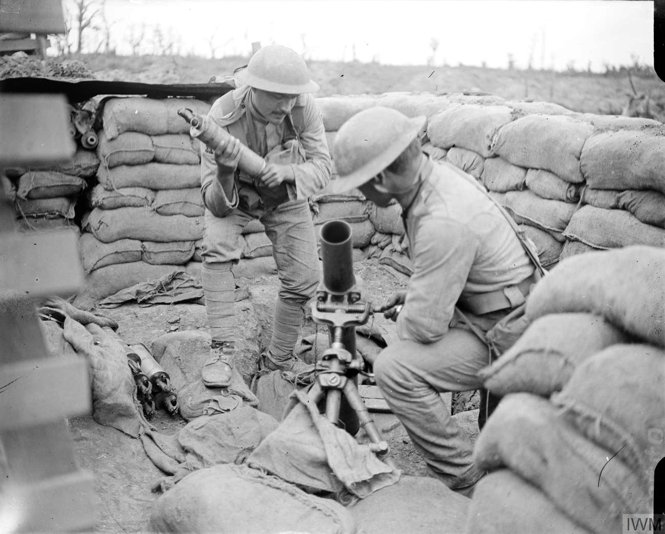 The Portuguese Expeditionary Corps on the Western Front, 1917-1918 Portuguese Stokes Mortar team in trenches at Neuve Chapelle, 25 June 1917.